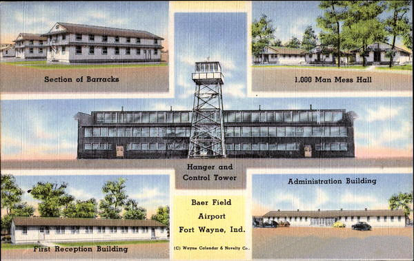 World War II postcard of Baer Field in Allen County, Indiana.